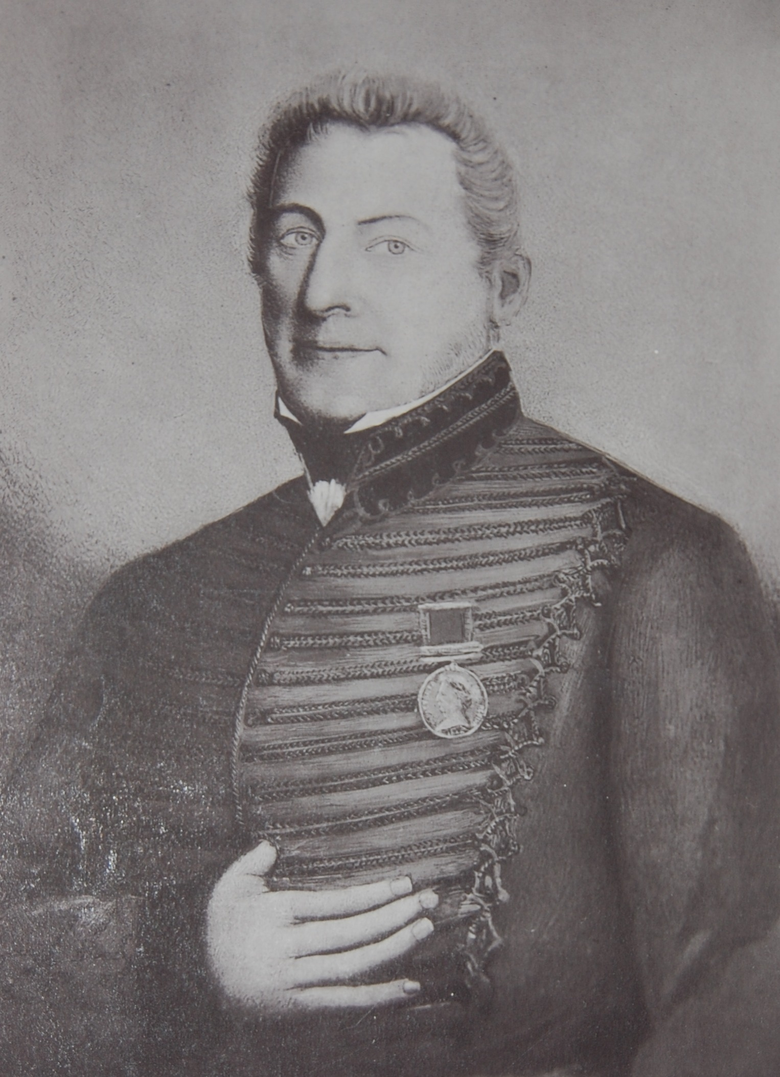 Photographic reproduction of oil portrait by Jean-Baptiste Roy-Audy, circa 1812. Lt. Maximilien Globensky, Canadian Voltigeurs